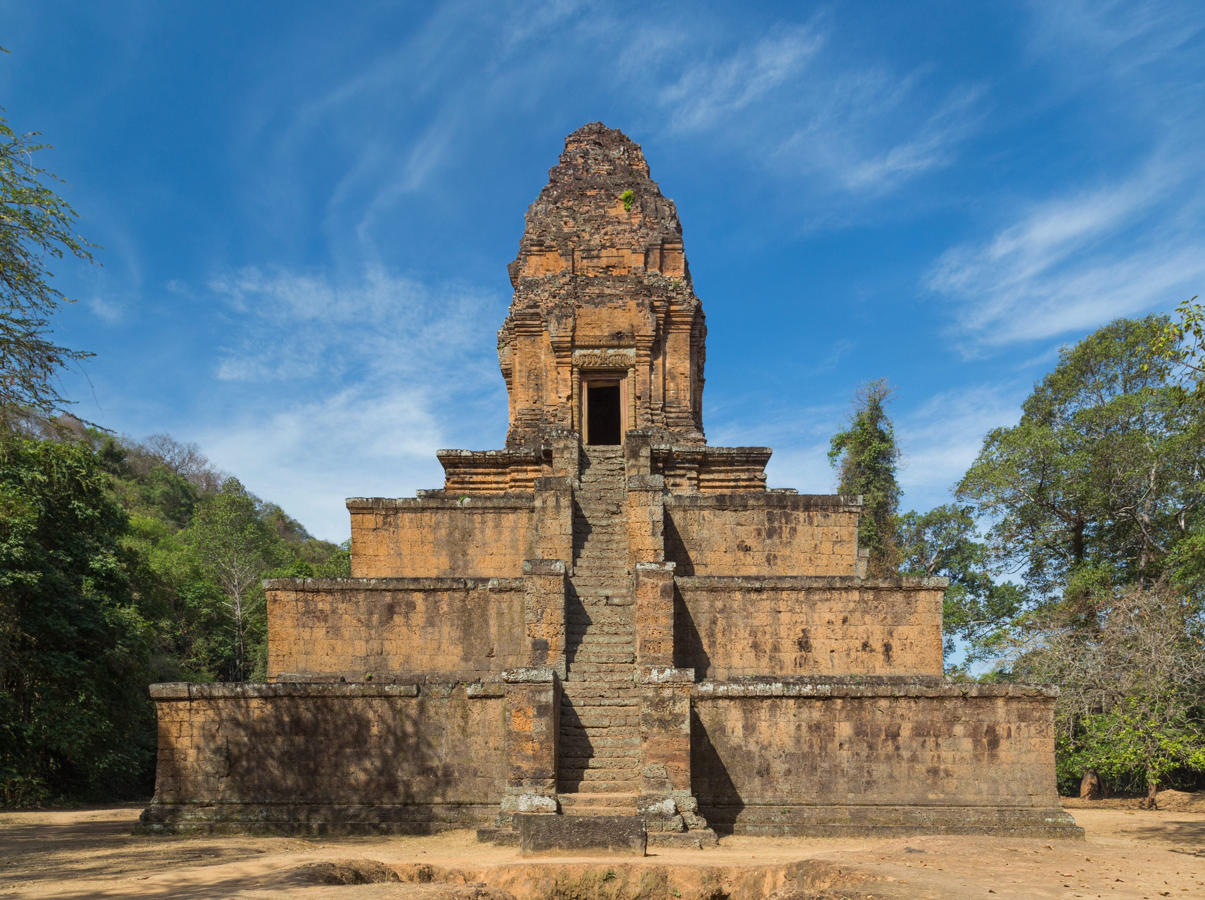 Baksei Chamkrong. Siem Reap Province, Cambodia.